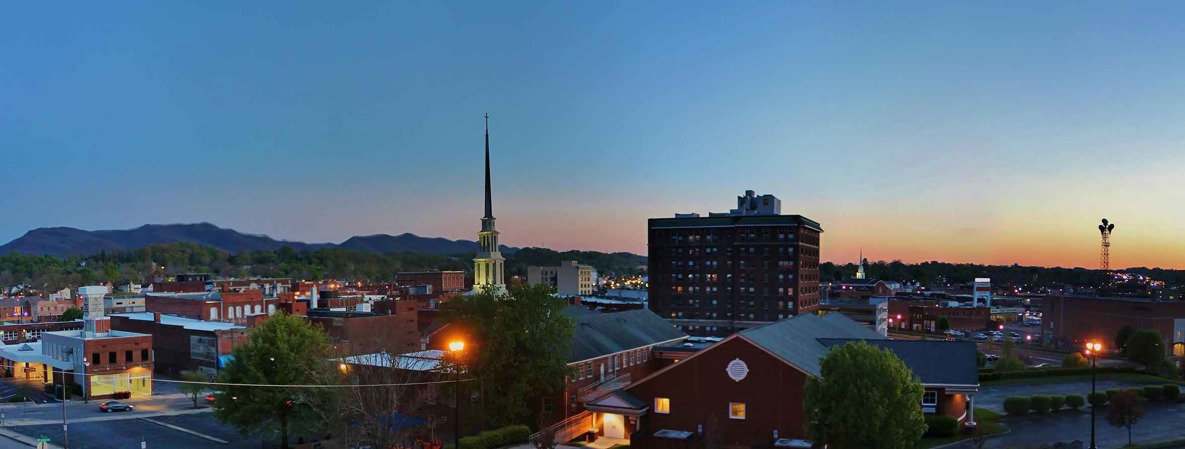 Framed by Buffalo Mountain to the left and the setting sun to the right, Downtown Johnson City continues to grow and reinvent itself on an almost daily basis.